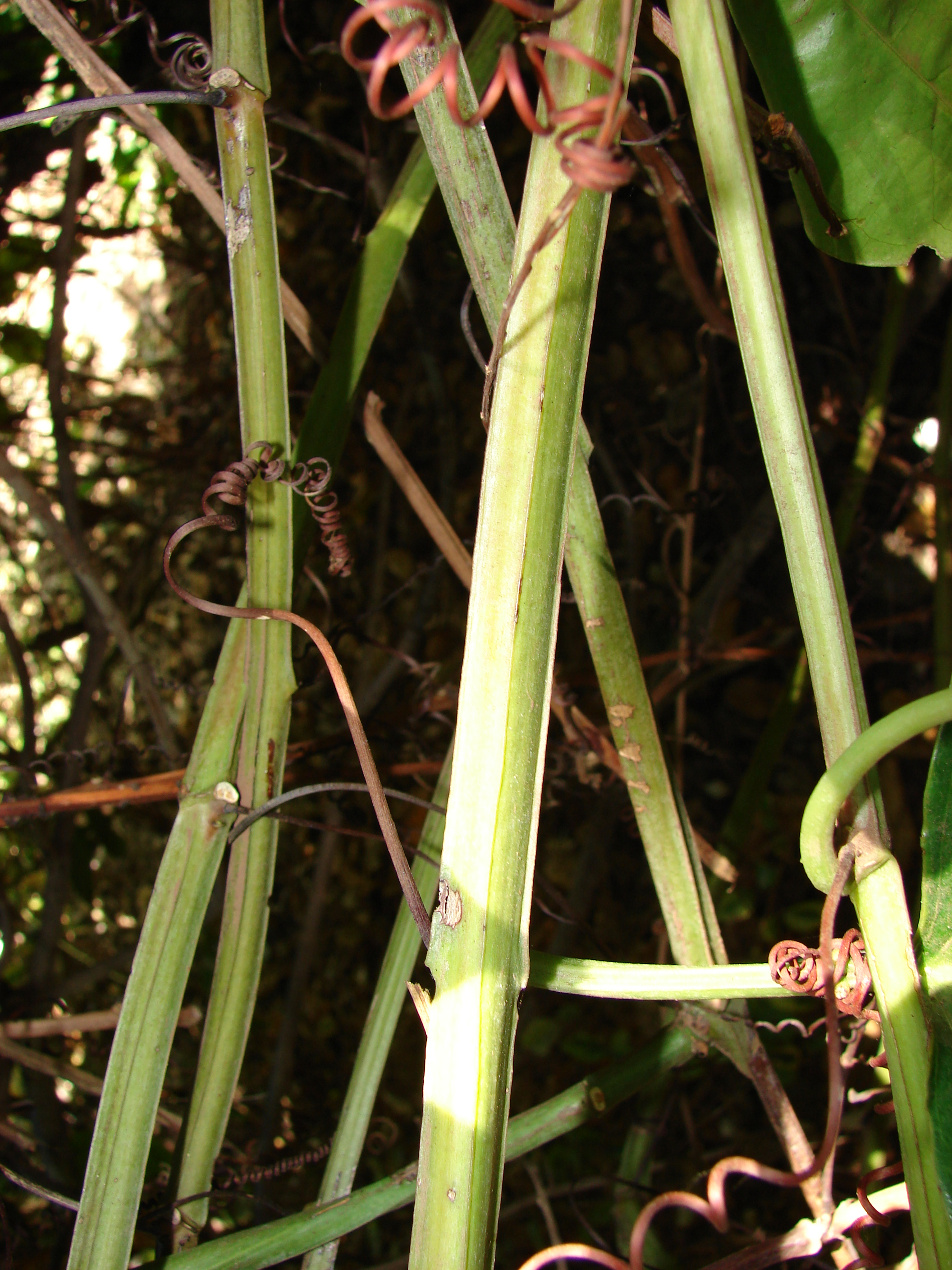 Passiflora quadrangularis (stems). Location: Maui, Enchanting Floral Gardens of Kula